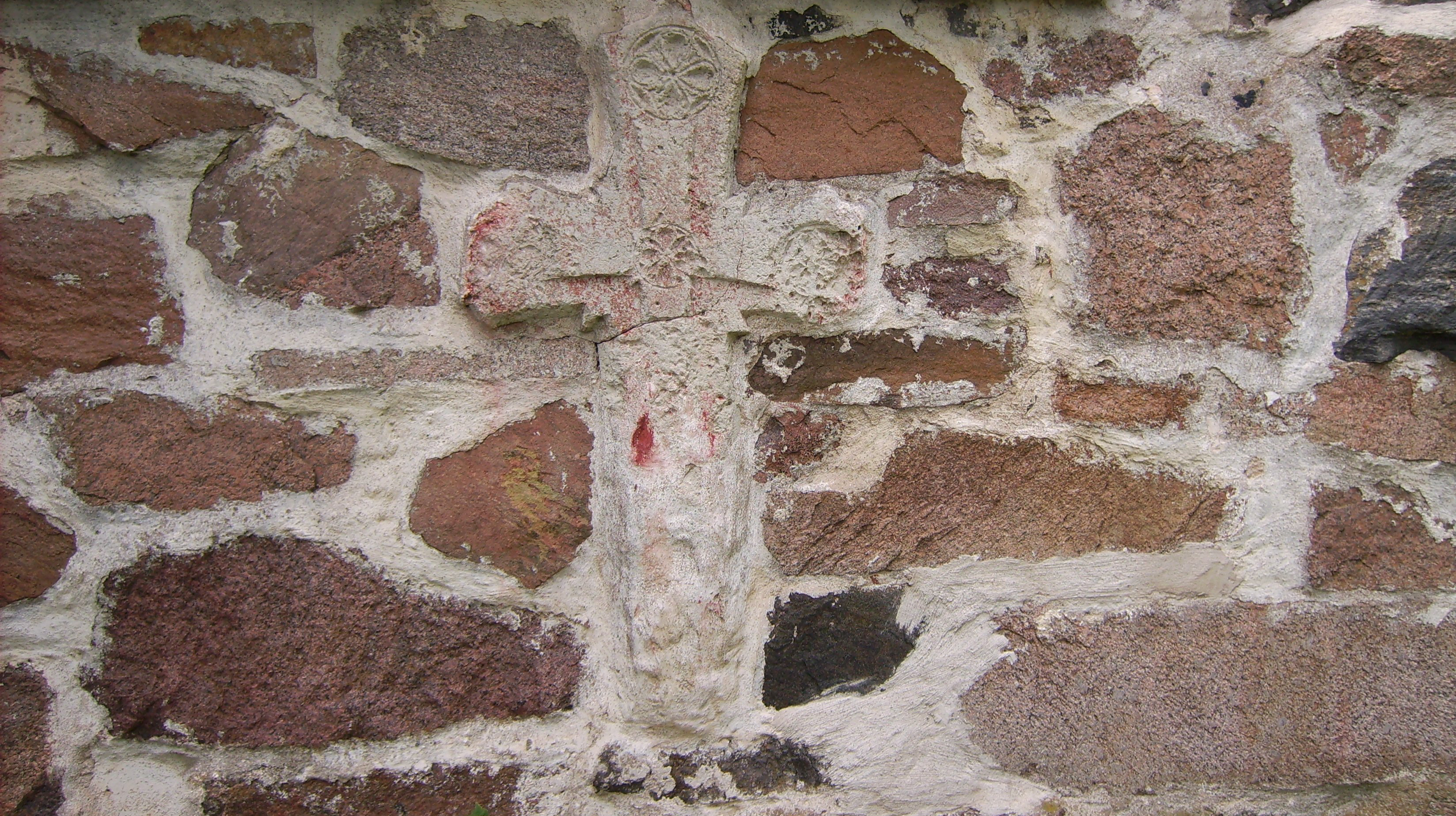 The medieval church in Korpo, Finland